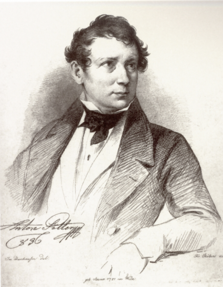 Portrait of Anton Petter (1781-1858)